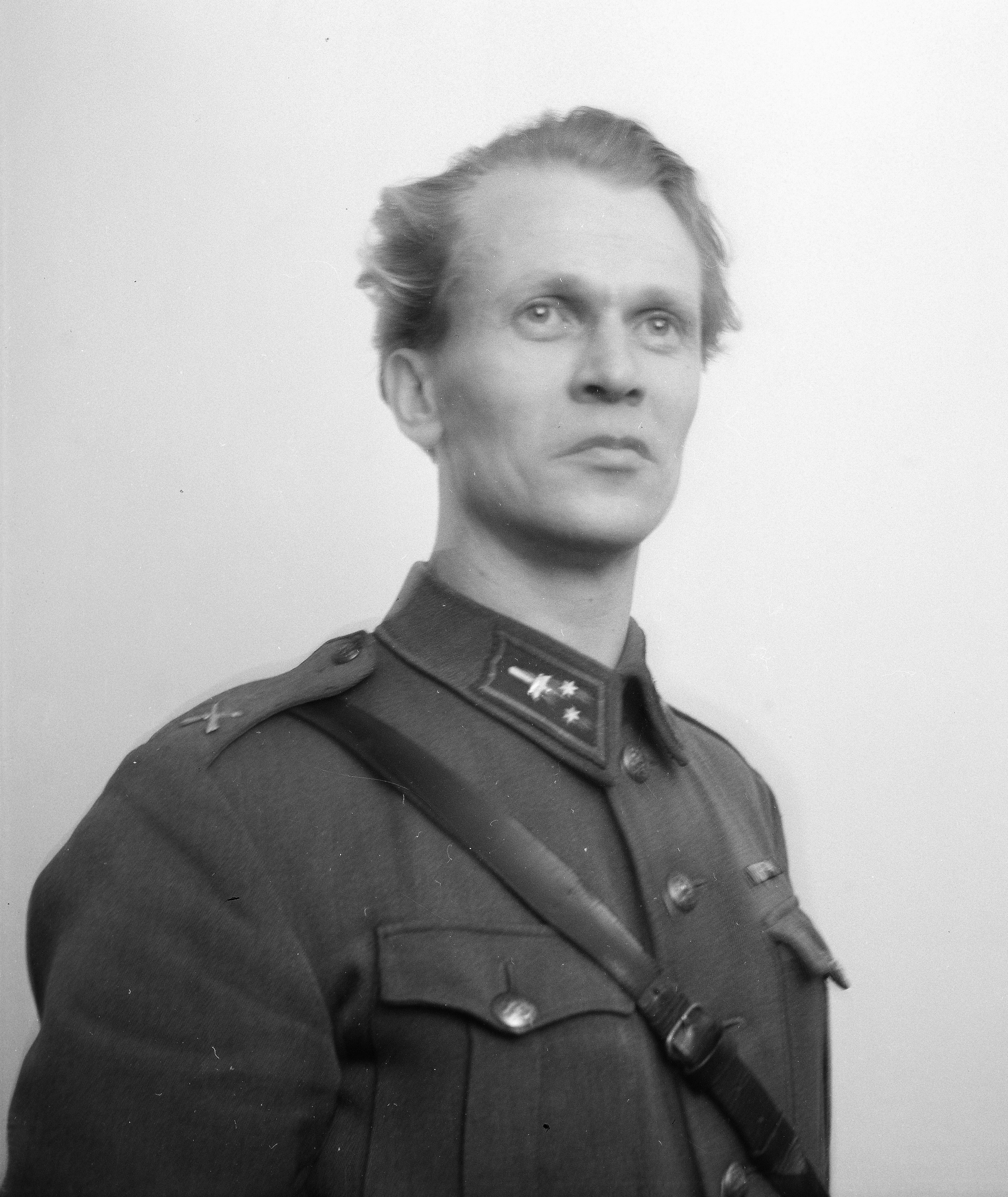 Photograph of the Finnish artist Aarne Nopsanen (1907–1990) during World War II.